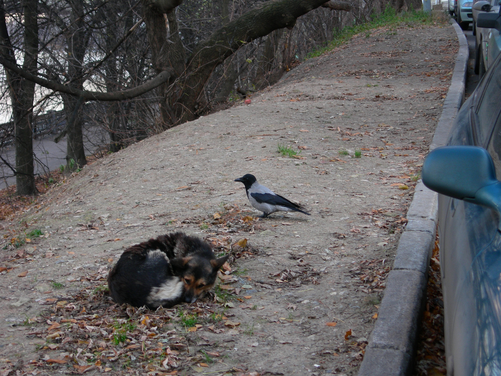 Dog and crow. Moscow streets